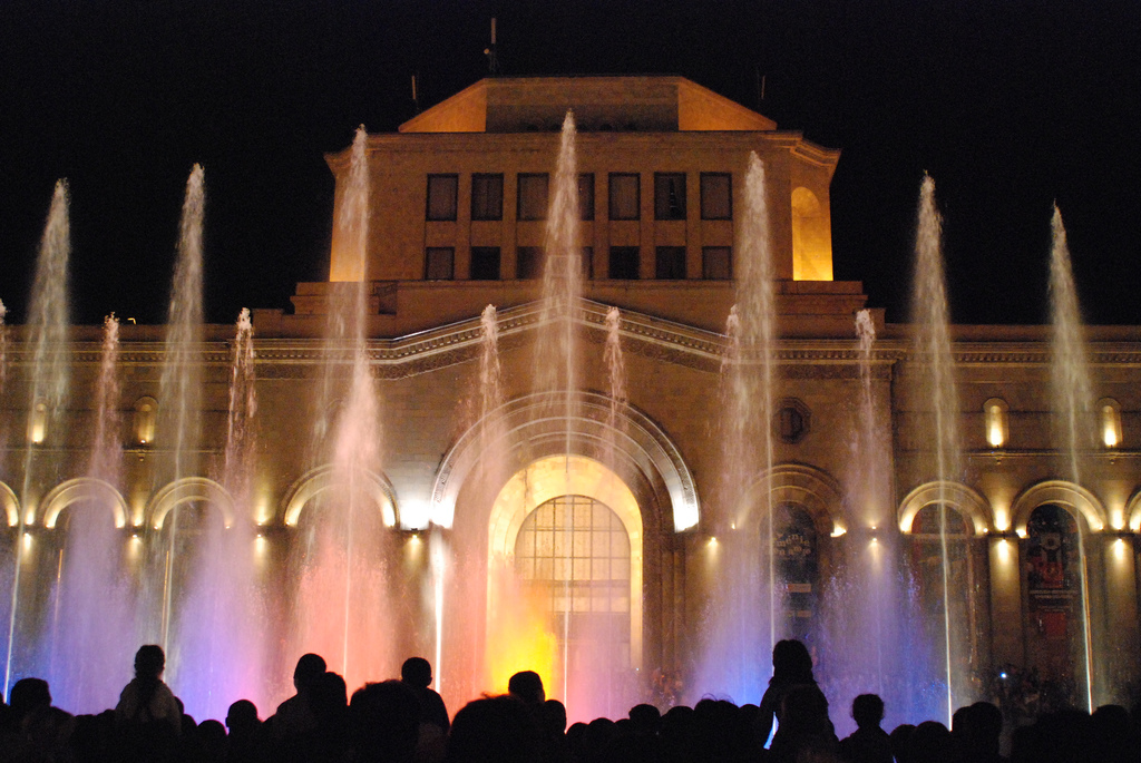 Fountains in the Republic square in Yerevan, Armenia. National museum building is in the background.